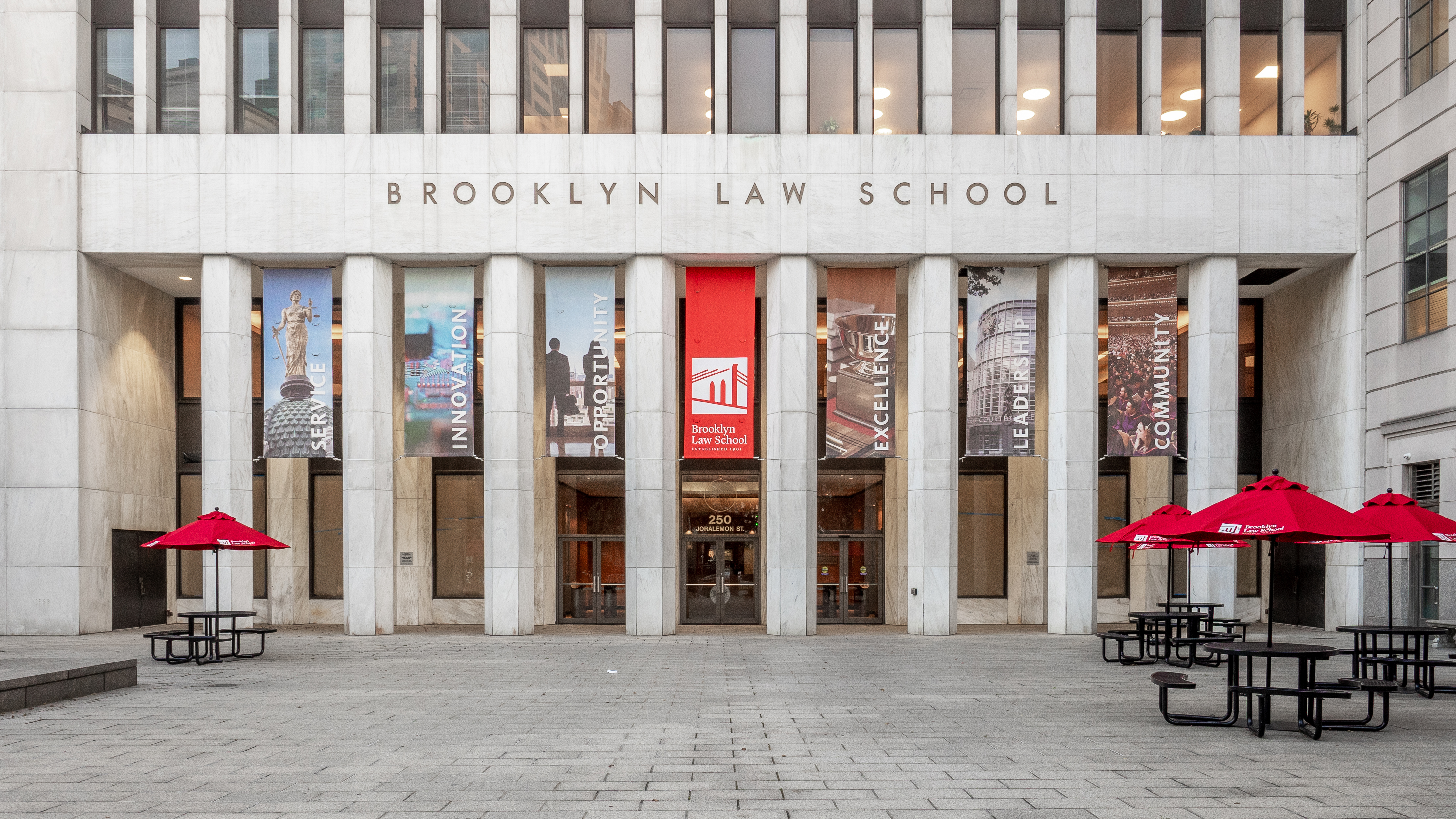 Downtown Brooklyn, Brooklyn, New York City